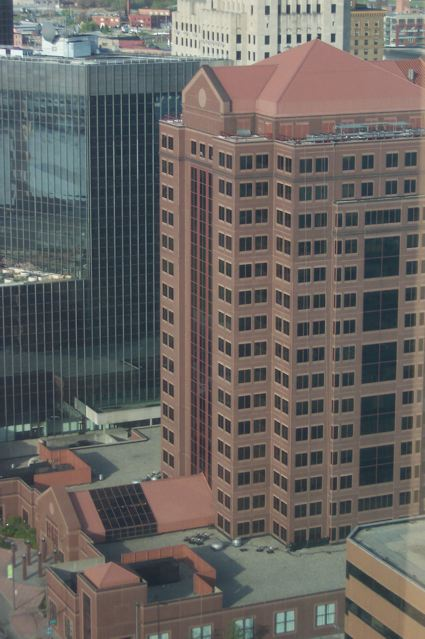 HCR Manor Care World Headquarters